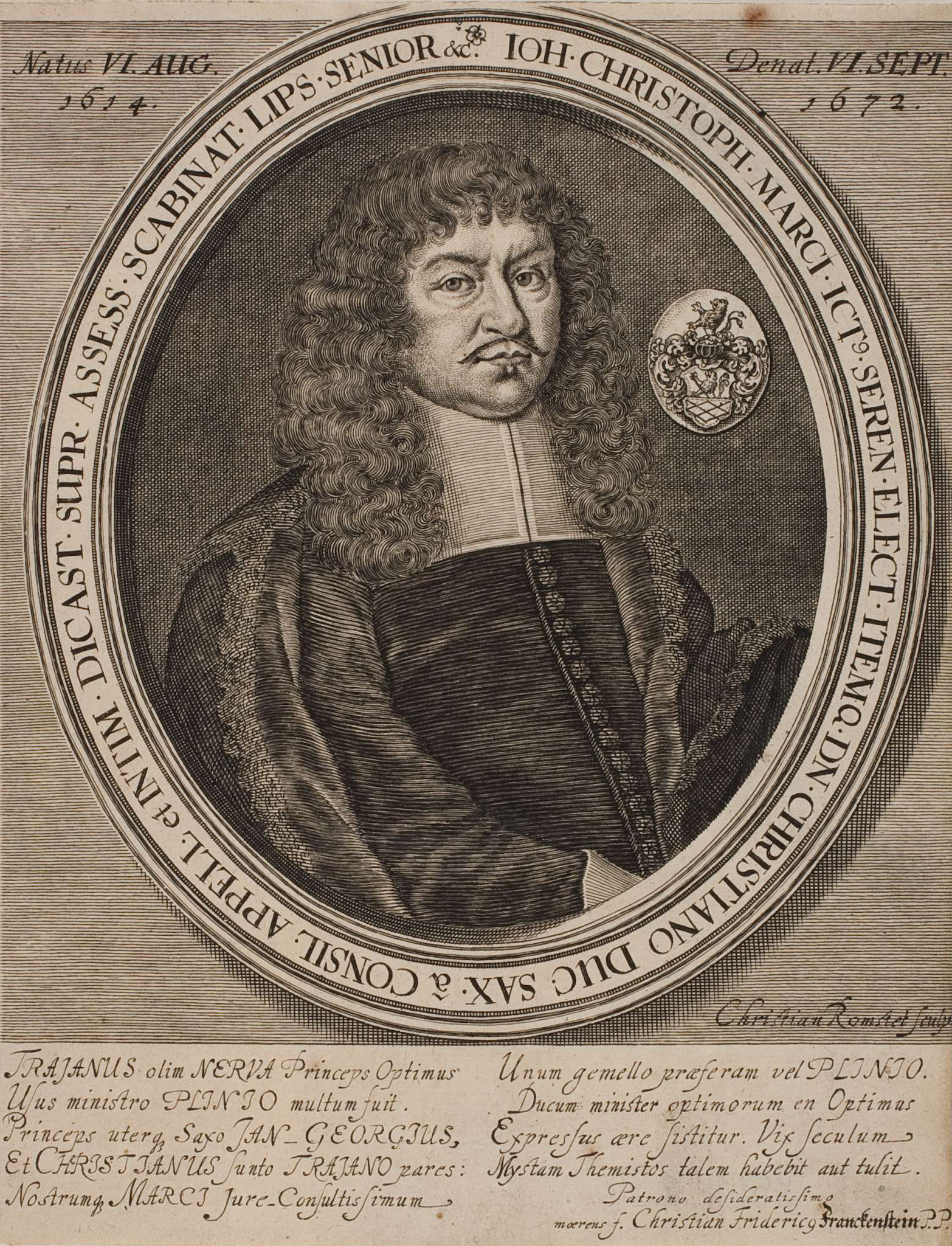 Portrait of Johann Christoph Marci